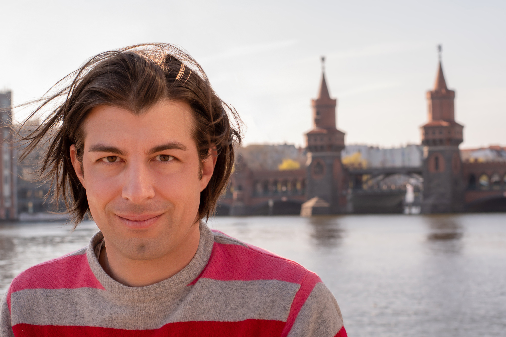 Andreas Kaplan, Professor of Marketing and Social Media / Dean and Rector of ESCP Europe